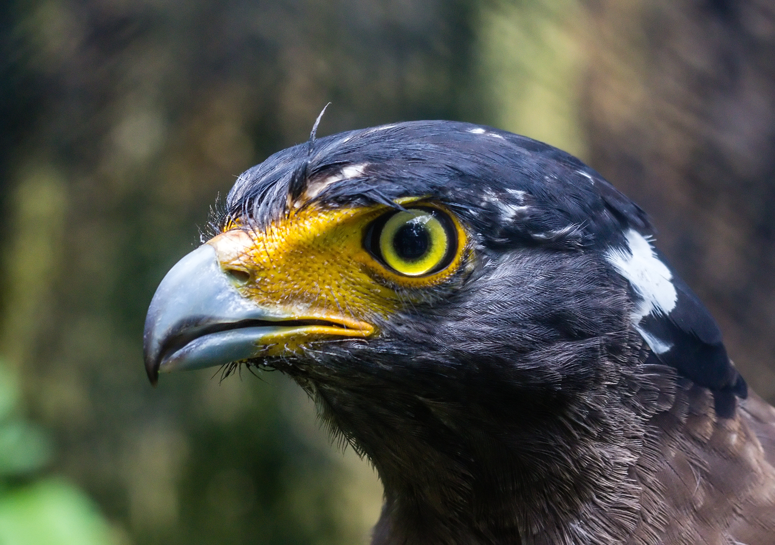 Portrait of crested serpent eagle (Spilornis cheela), Gembira Loka Zoo, Yogyakarta, 2015-03-15